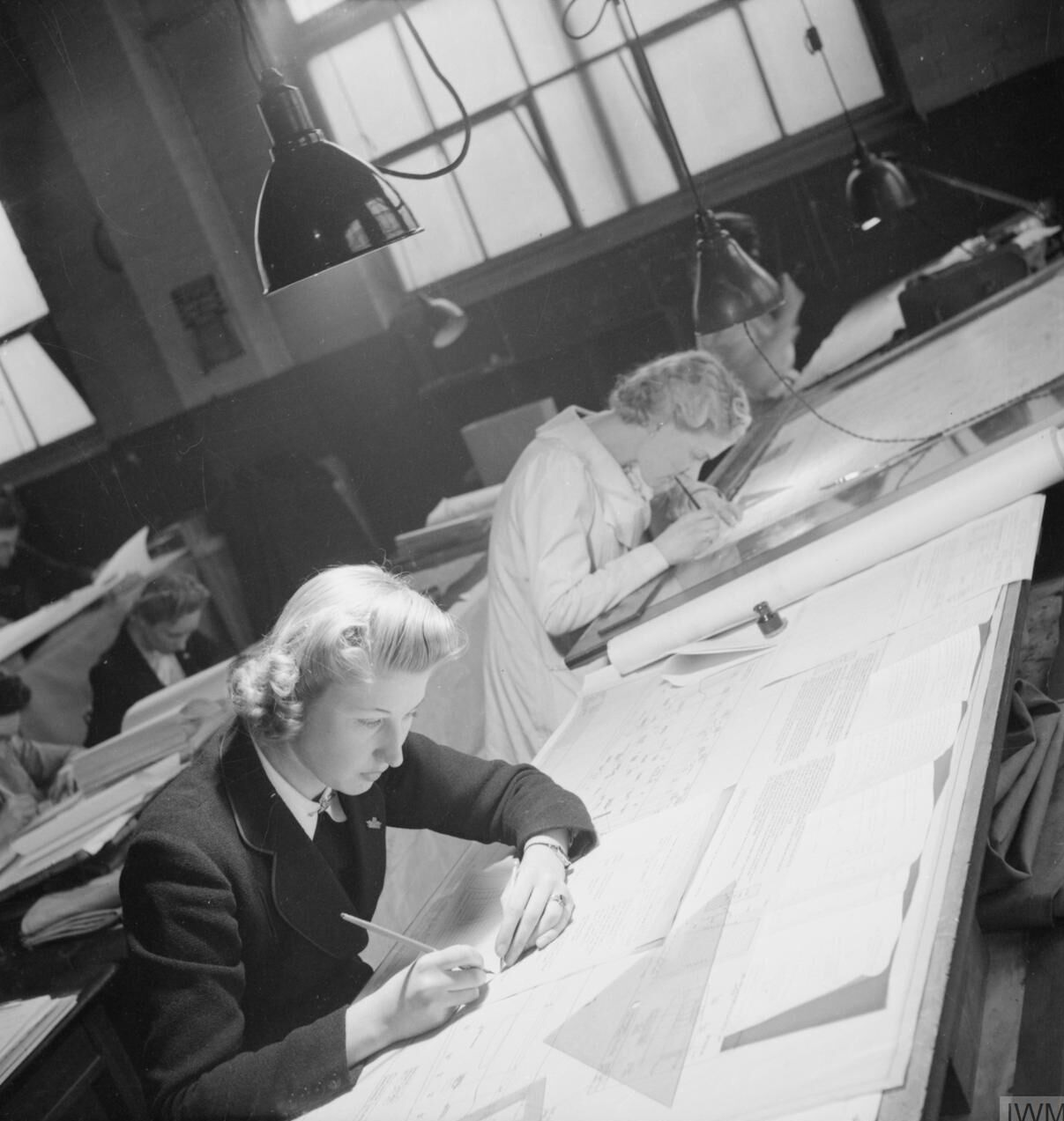 Birth of a Bomber- Aircraft Production in Britain, 1942 Mrs Peggy Tompkins sits at a drawing board and marks on the centre of gravity for various aircraft parts, at the Handley Page factory at Cricklewood. Several other women can also be seen at work in the Drawing Office.